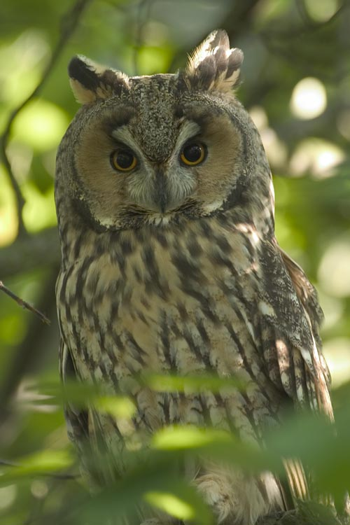 Long-eared Owl Asio otus in the wild, Germany.